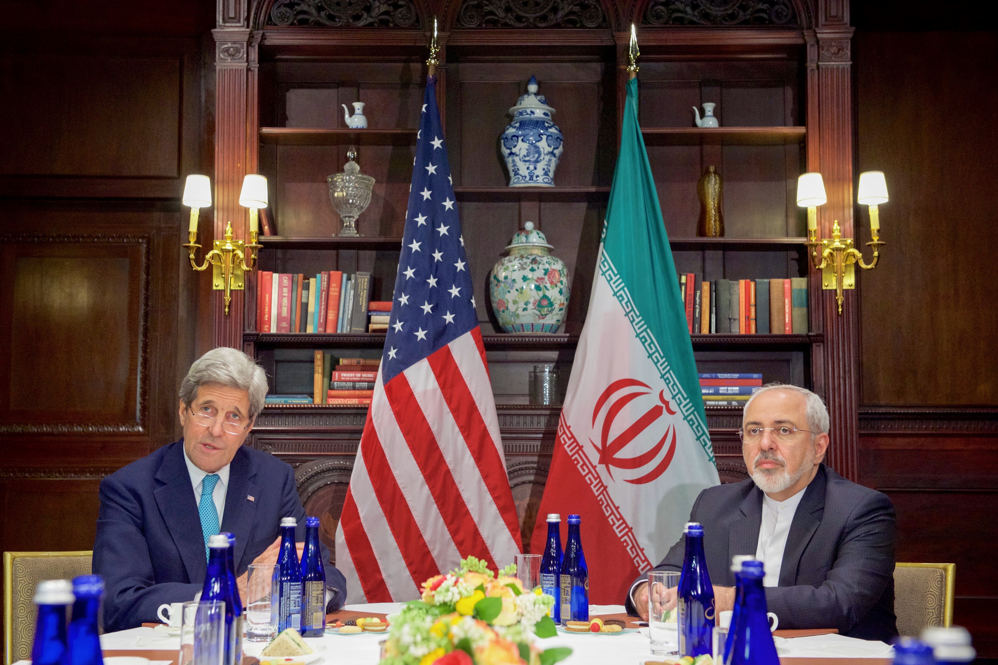 U.S. Secretary of State John Kerry addresses reporters before a bilateral meeting with Iranian Foreign Minister Javad Zarif on April 22, 2016, at the Lotte Palace Hotel in New York, N.Y. [State Department photo/ Public Domain]